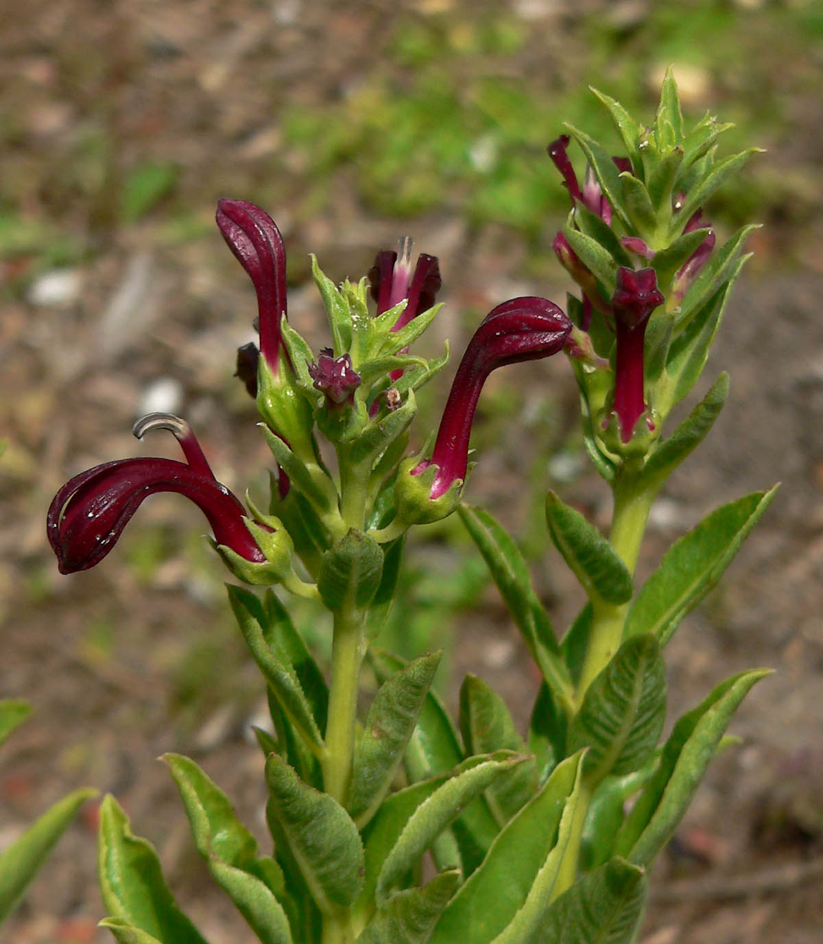 Photo of Lobelia polyphylla at the San Francisco Botanical Garden